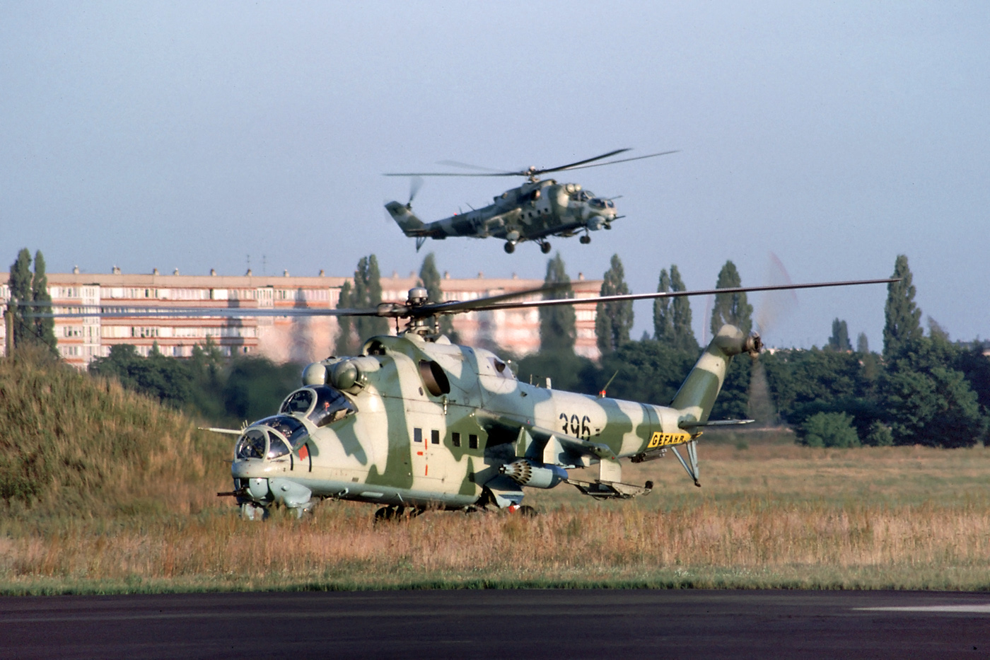 Cottbus, 23 August 1990. Evening flying in progress with several Hinds of Kampfhubschraubergeschwader 3 (attack helicopter squadron 3).